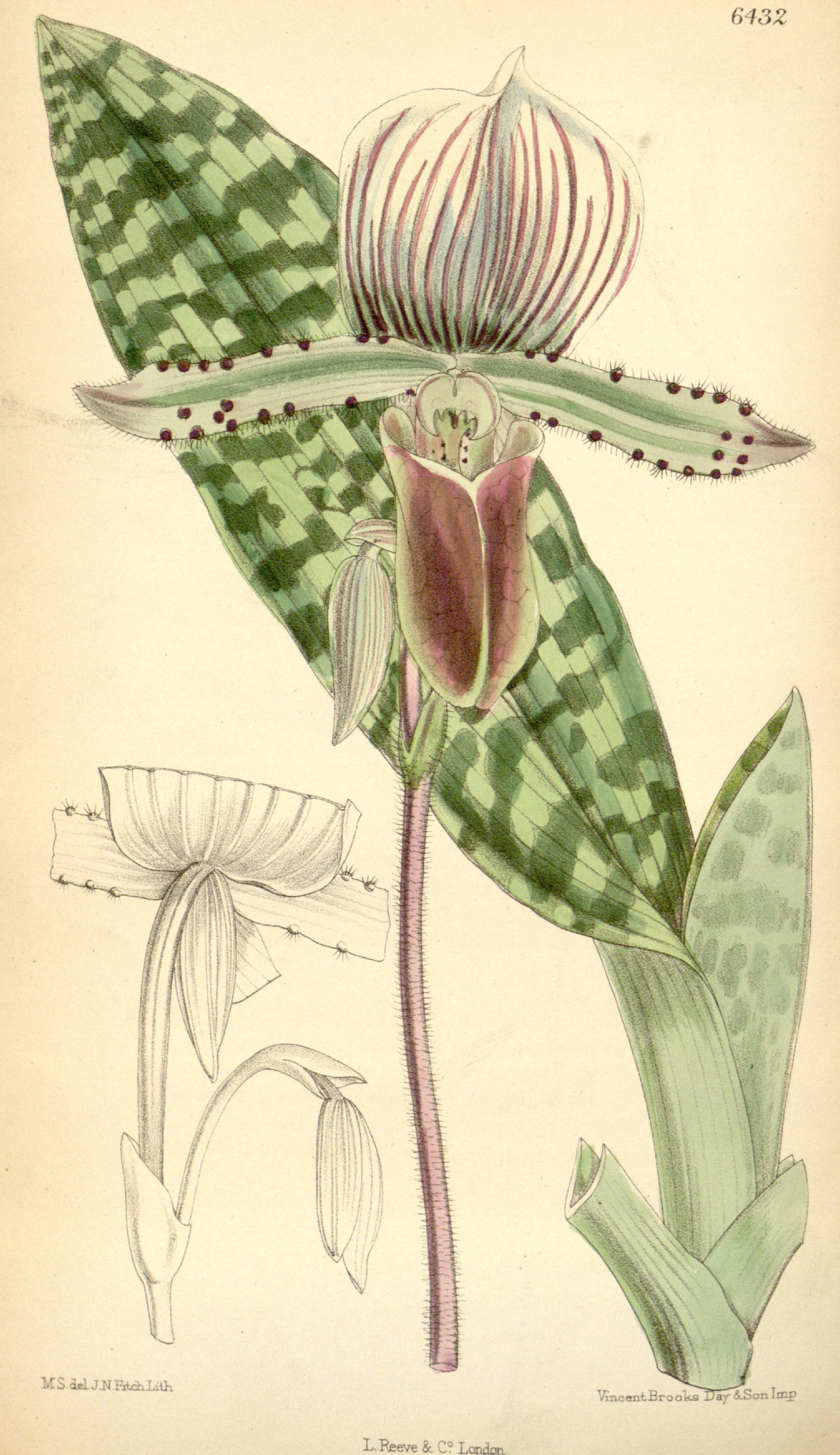 Illustration of Paphiopedilum lawrenceanum (as syn. Cypripedium lawrenceanum)